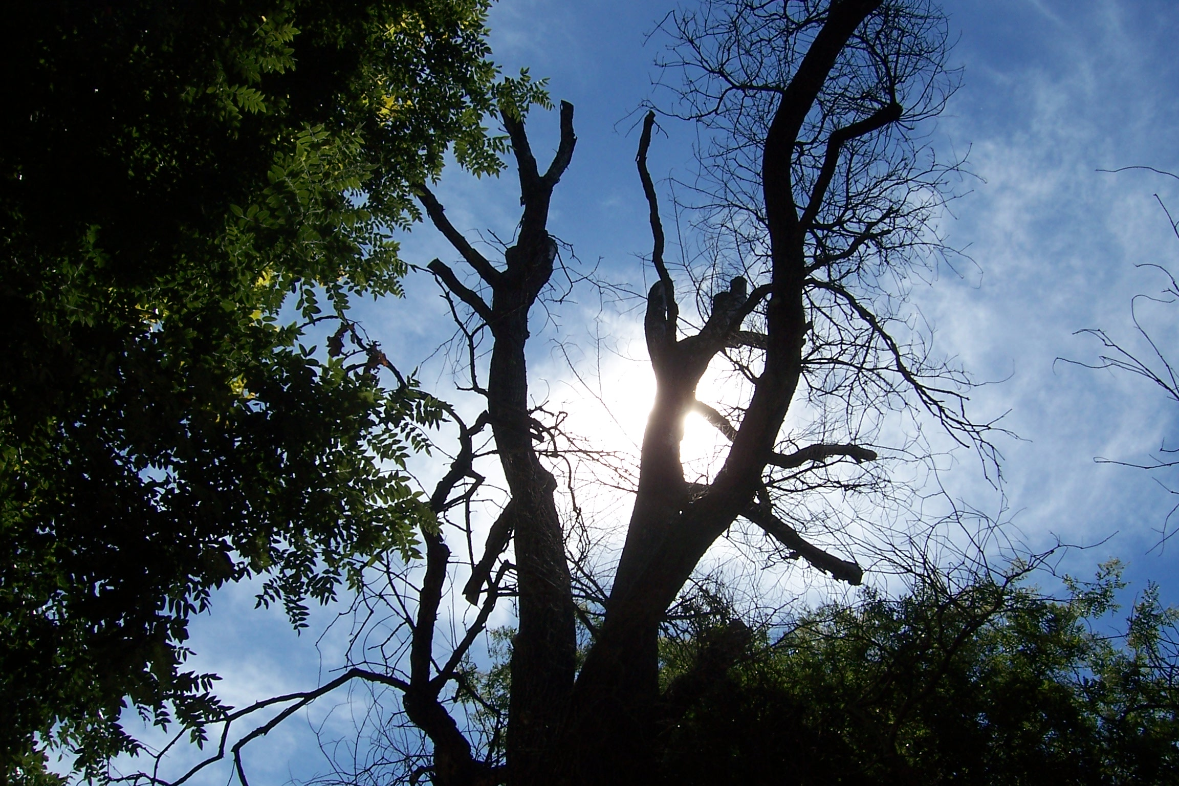 Campo Grande Park in Valladolid (Spain). Skeleton of the top of an ulmus minor. There were 1800 elms planted in this park, but all of them died due to Dutch elm disease. This specimen stands dead at the entrance of the "Sendero de los Olmos" (Path of the Elms).